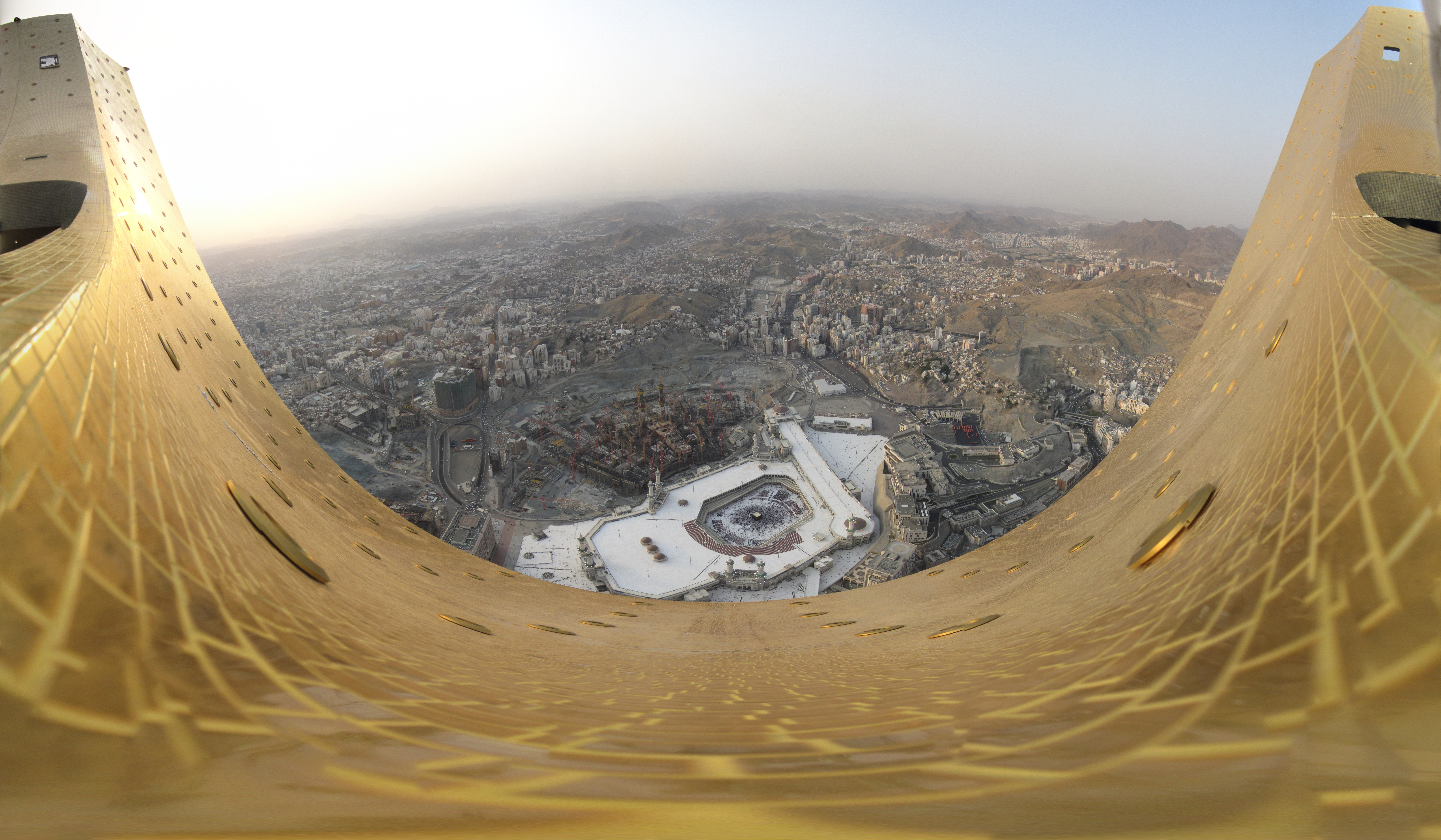 This is a panoramic overview of the city of Makkah (Saudi Arabia) taken from the crescent located at the top of Abraj-Al-Bait-Towers in about 585m height. It was built from 67 single photos. It covers about 180° from west over north to east. It shows important places like for example the Holy Mosque (Masjid al-Haram) or the Light Mountain (Jabal al-Nour).